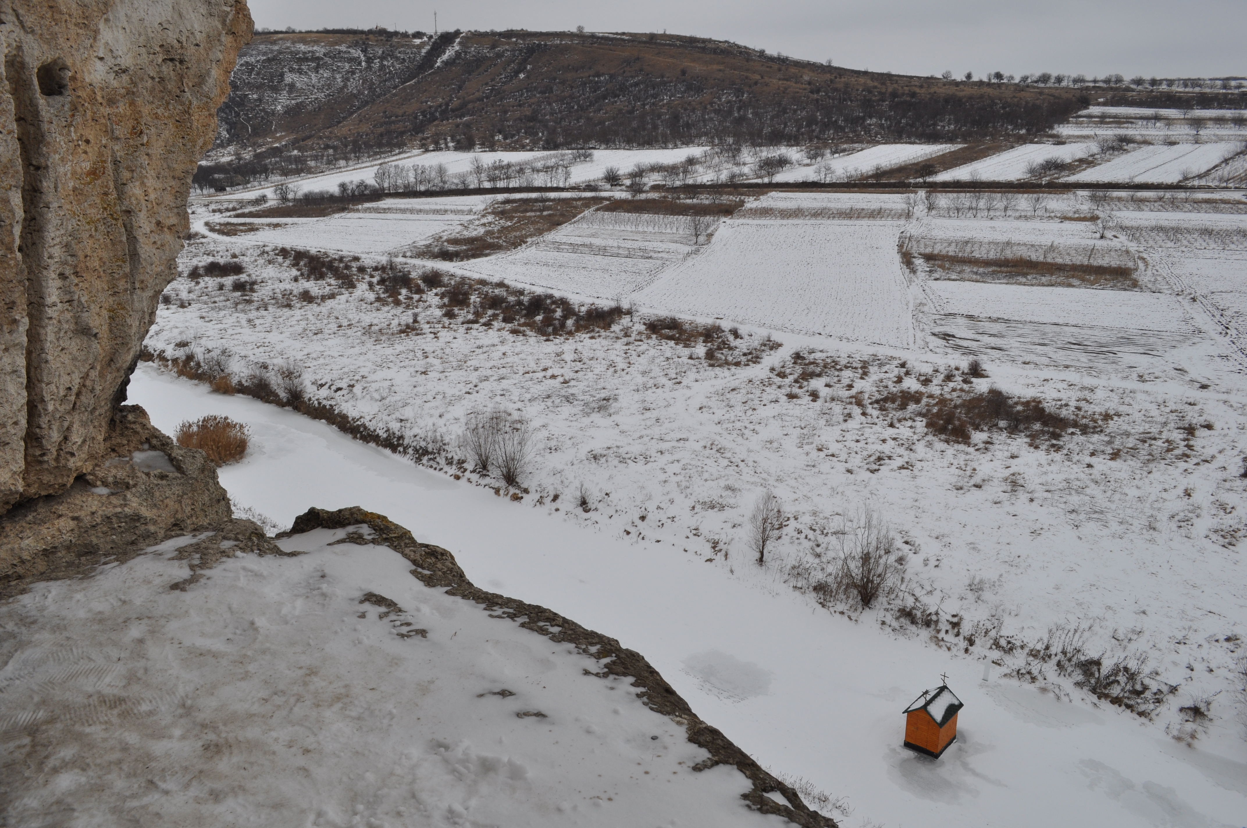 View on the river Răut as seen from the church of Mănăstirea Peștera